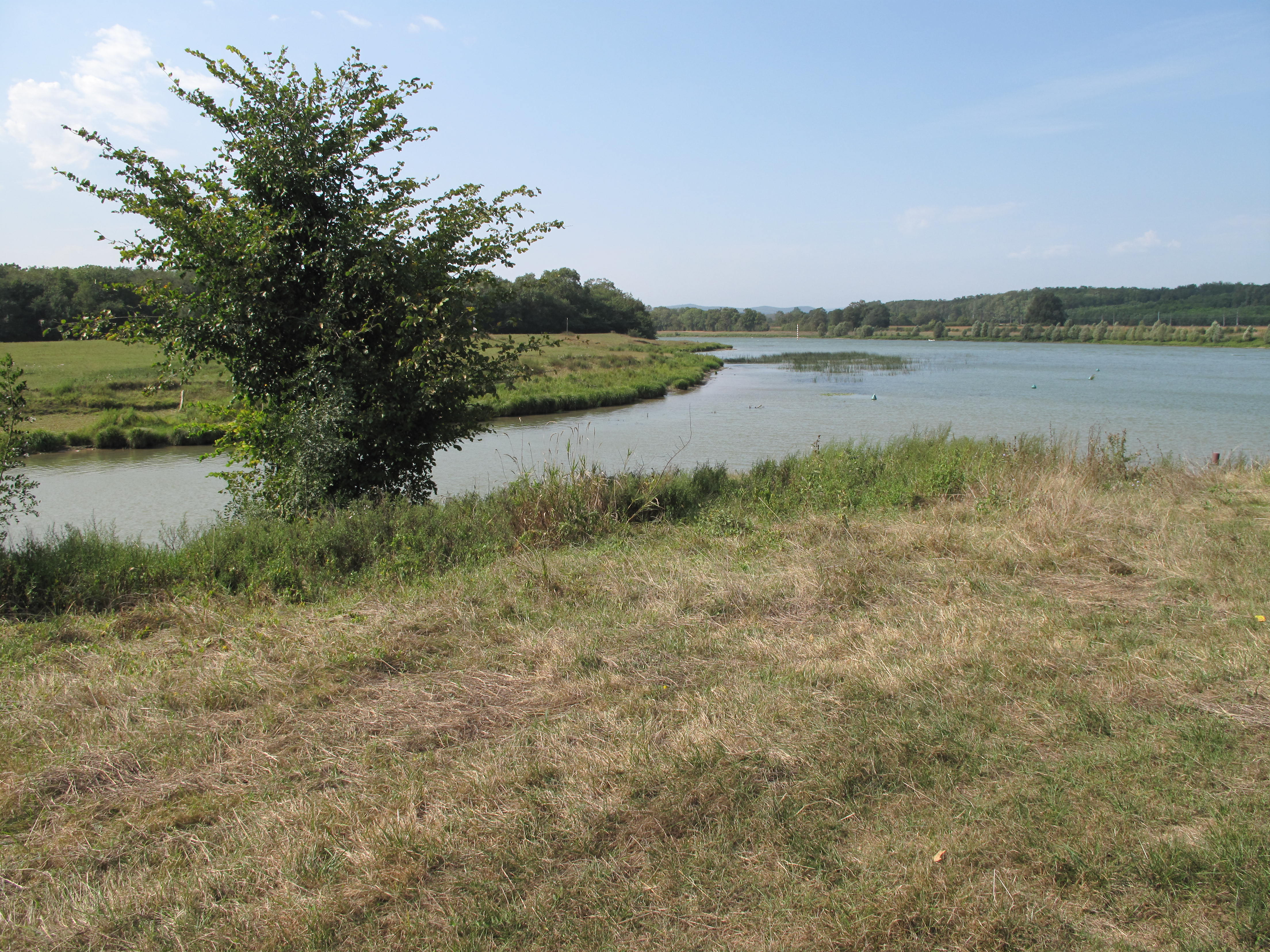 Junction of the canal de la Seille in the river Saône, near Tournus, France